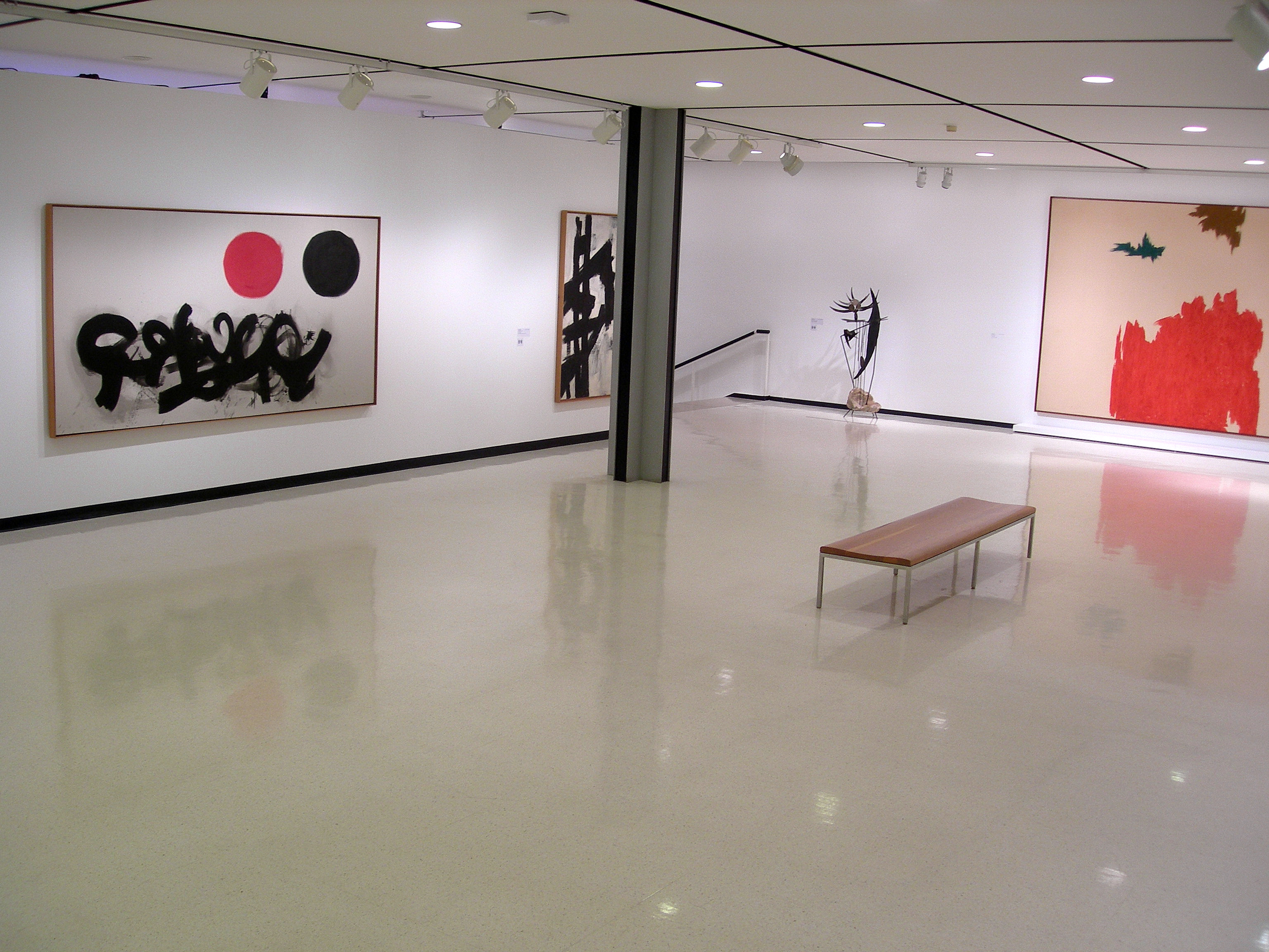 Photo inside the Albright-Knox Art Gallery, Buffalo NY